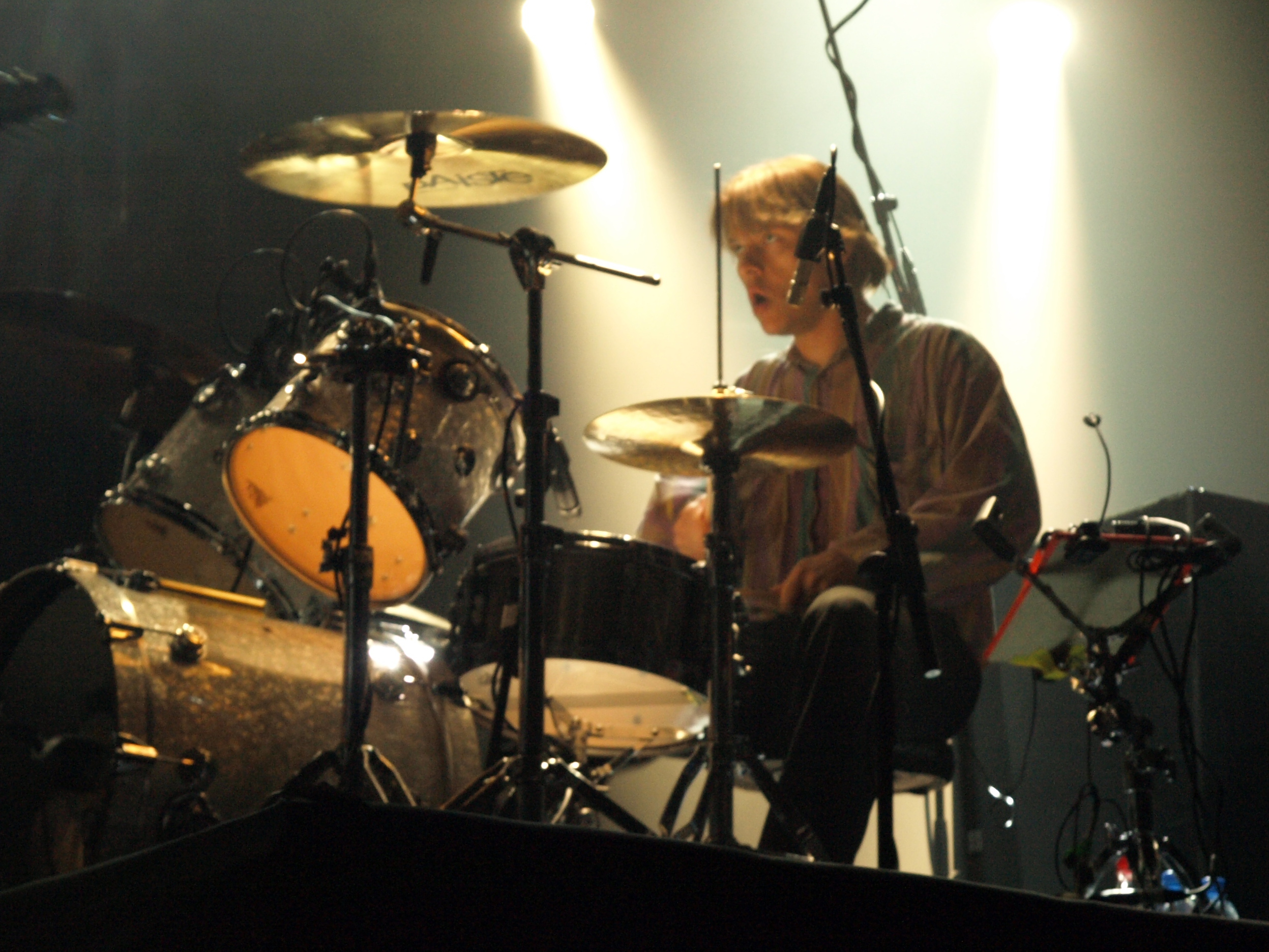 Danish band Mew at Provinssirock 2013